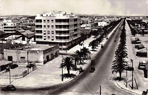 View of esplanade Gambetta of Tunis in 1930